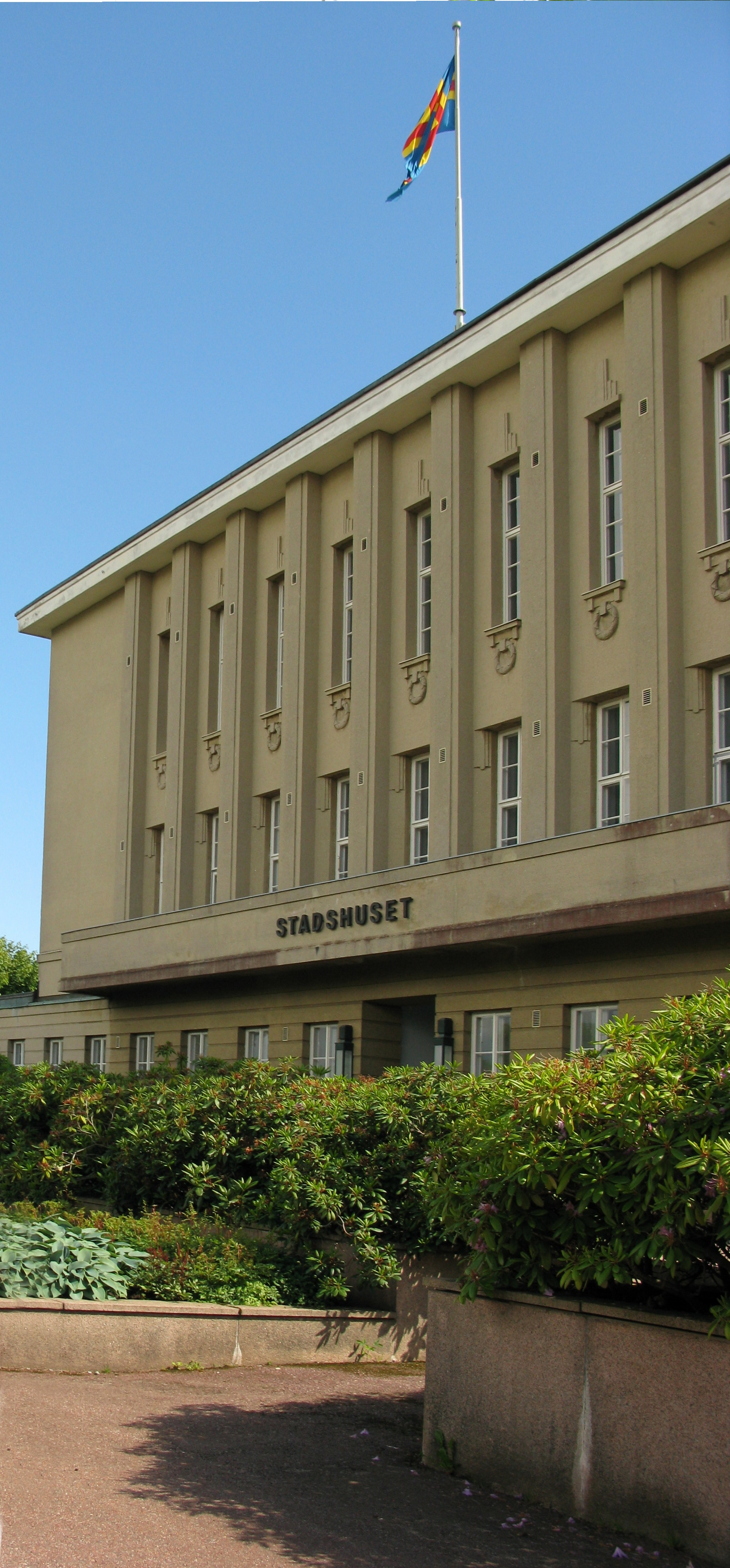 Mariehamn Town Hall